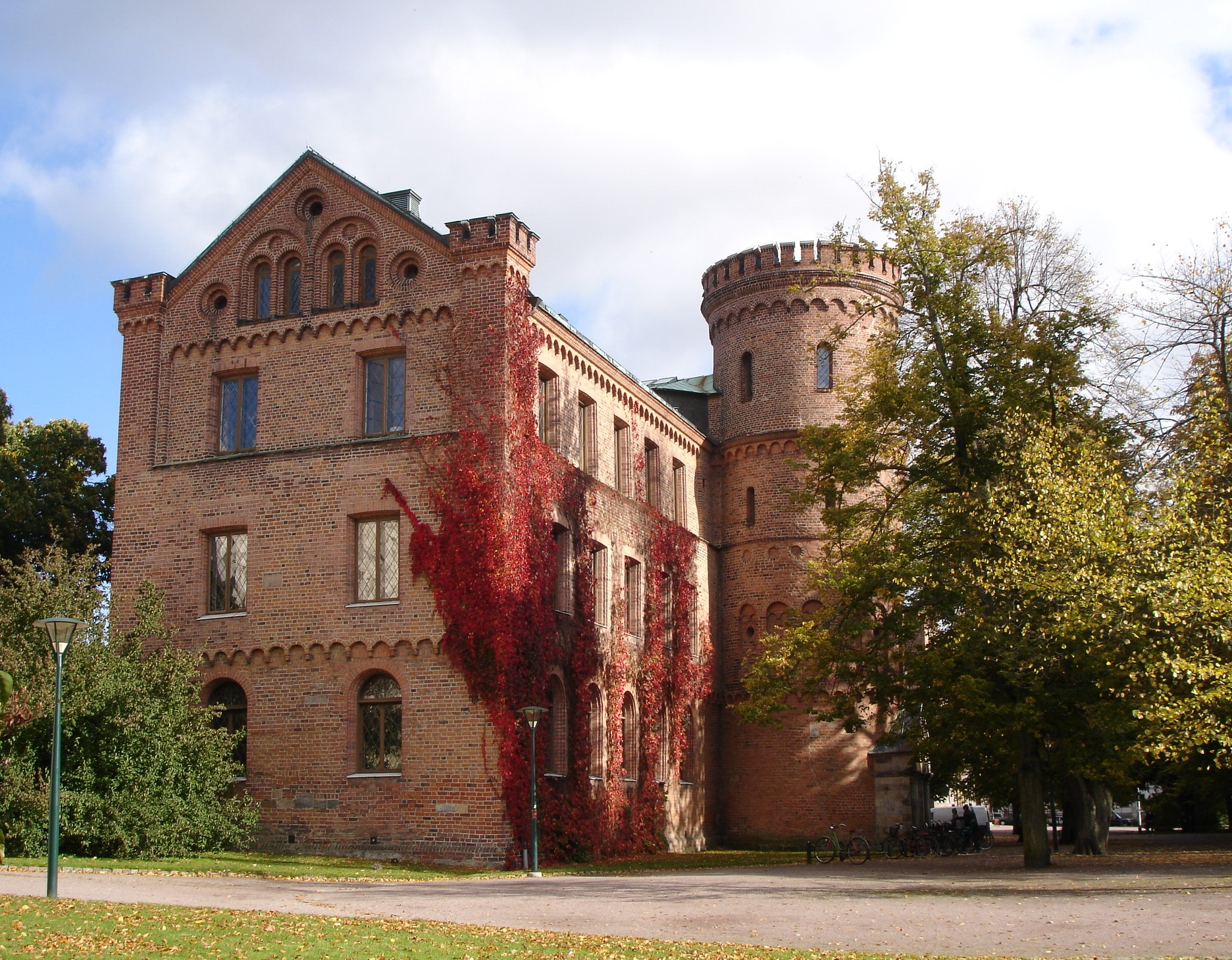 The old University library, or the King's house, Lund